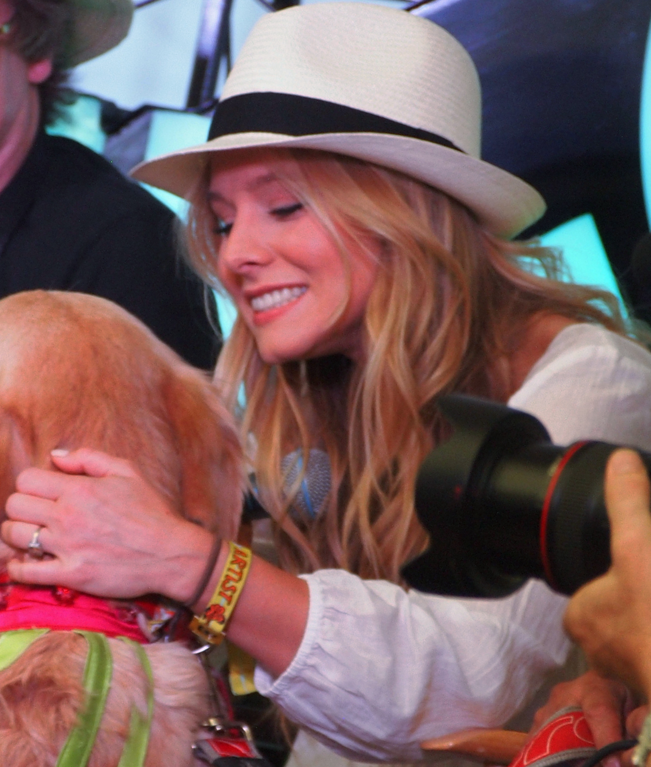 Kristen Bell Embraces the Dancing Merengue Dog during a press conference at Bonnaroo 2012.